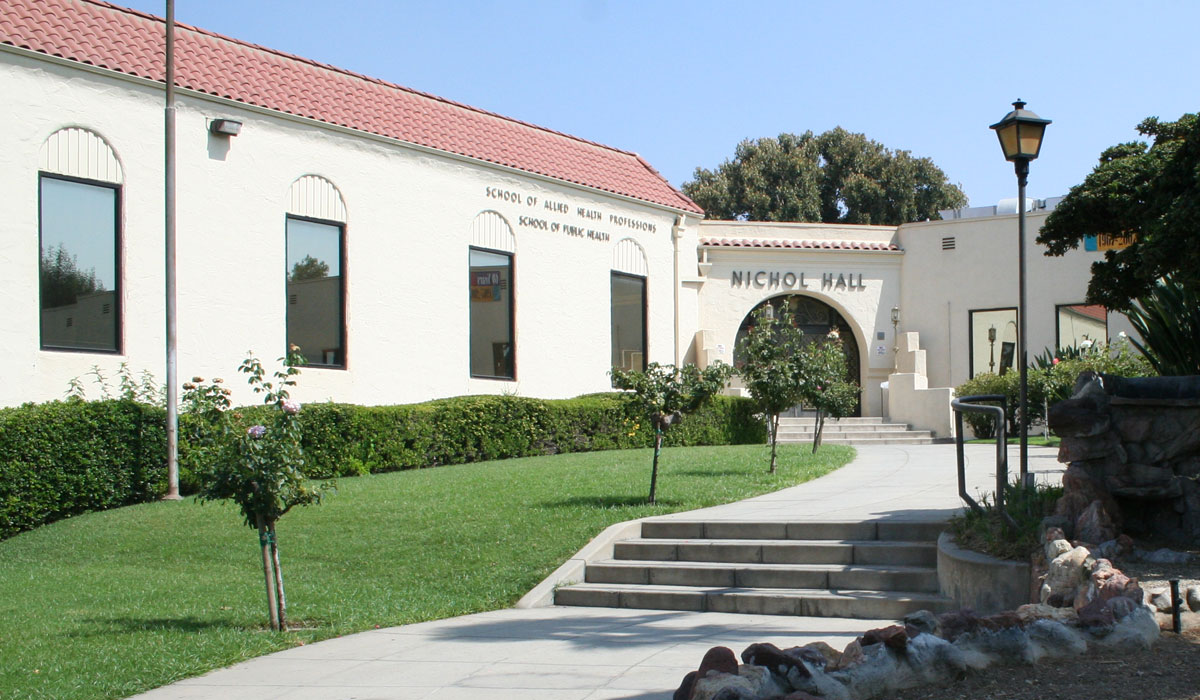 Nichol Hall on the campus of Loma Linda University in Loma Linda, California houses the Schools of Allied Health Professions and Public Health. It was named for Francis D. Nichol, a Seventh-day Adventist and Loma Linda resident.